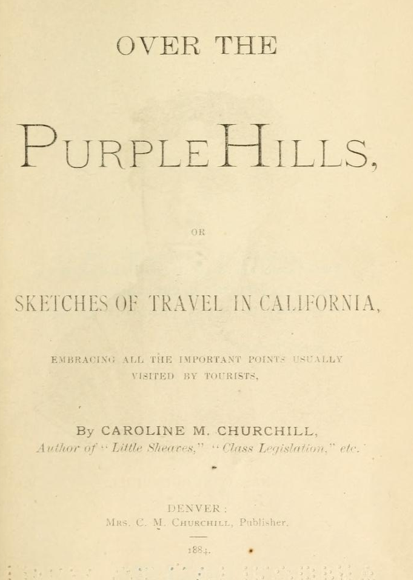 cover page from the book